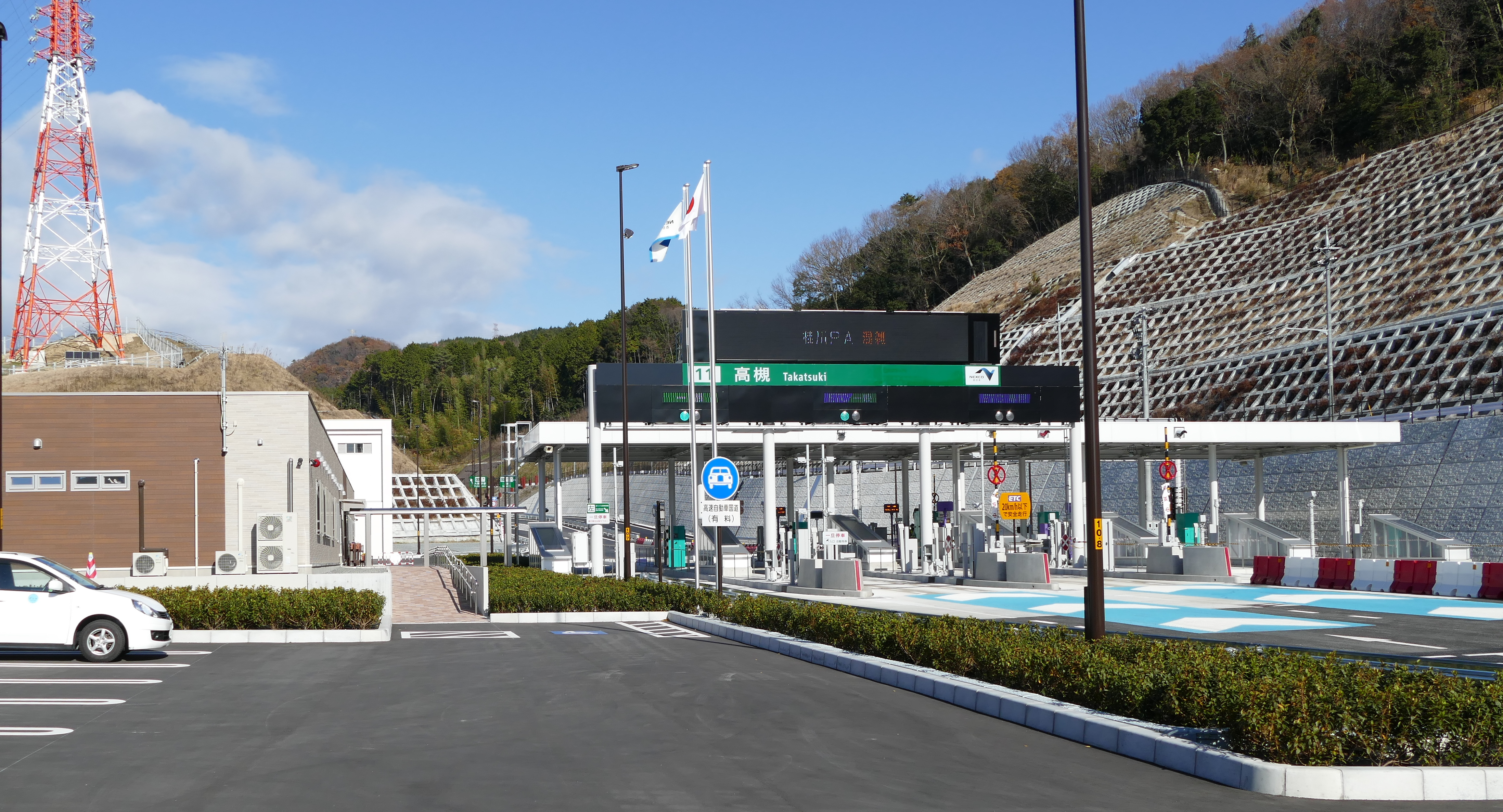 Takatsuki Inter Change ,Osaka prefecture,Japan